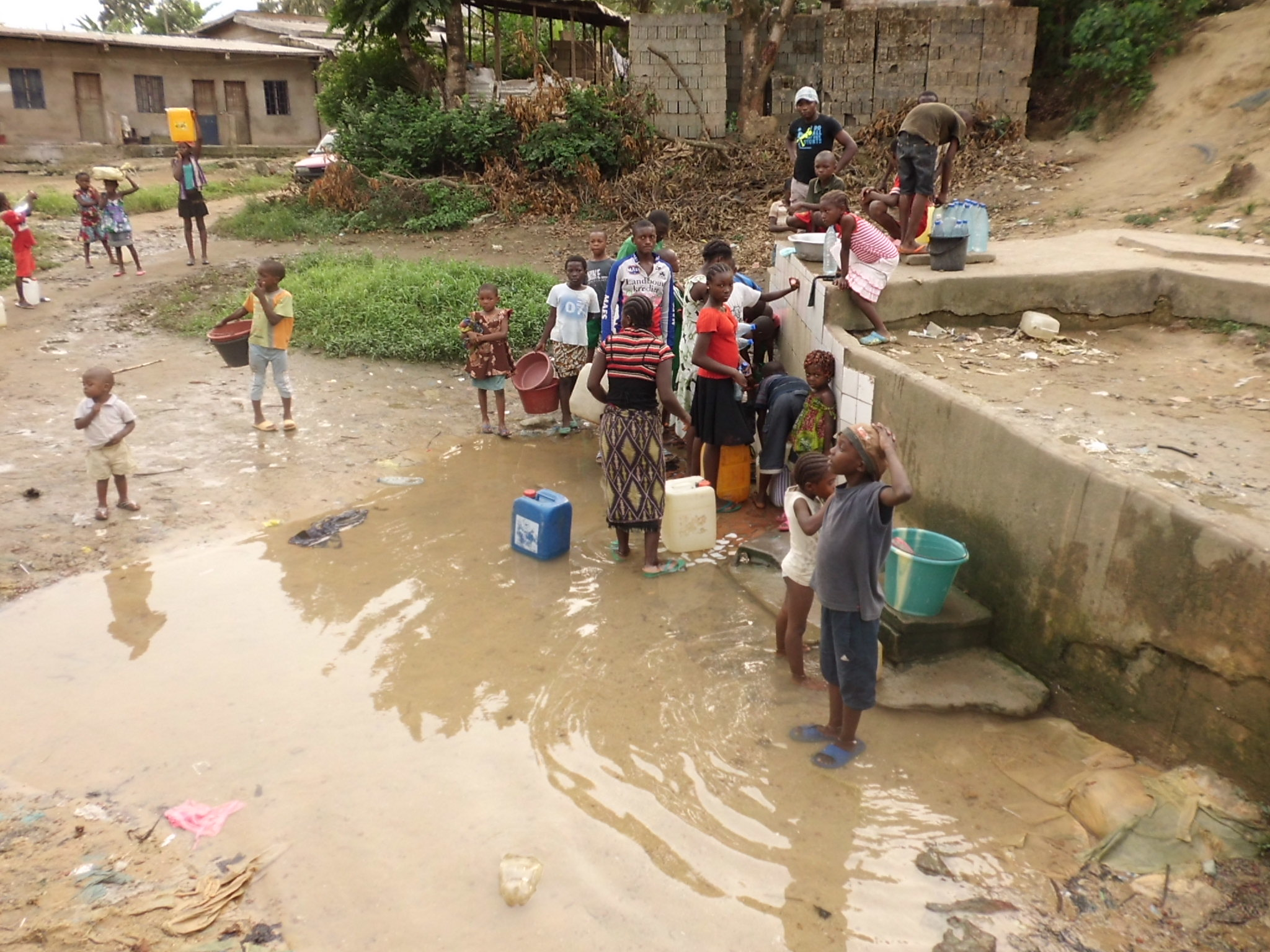 The neighborhood of Ndogpassi in Douala. Photo by Caroline Ngouegni, Douala, 2013.